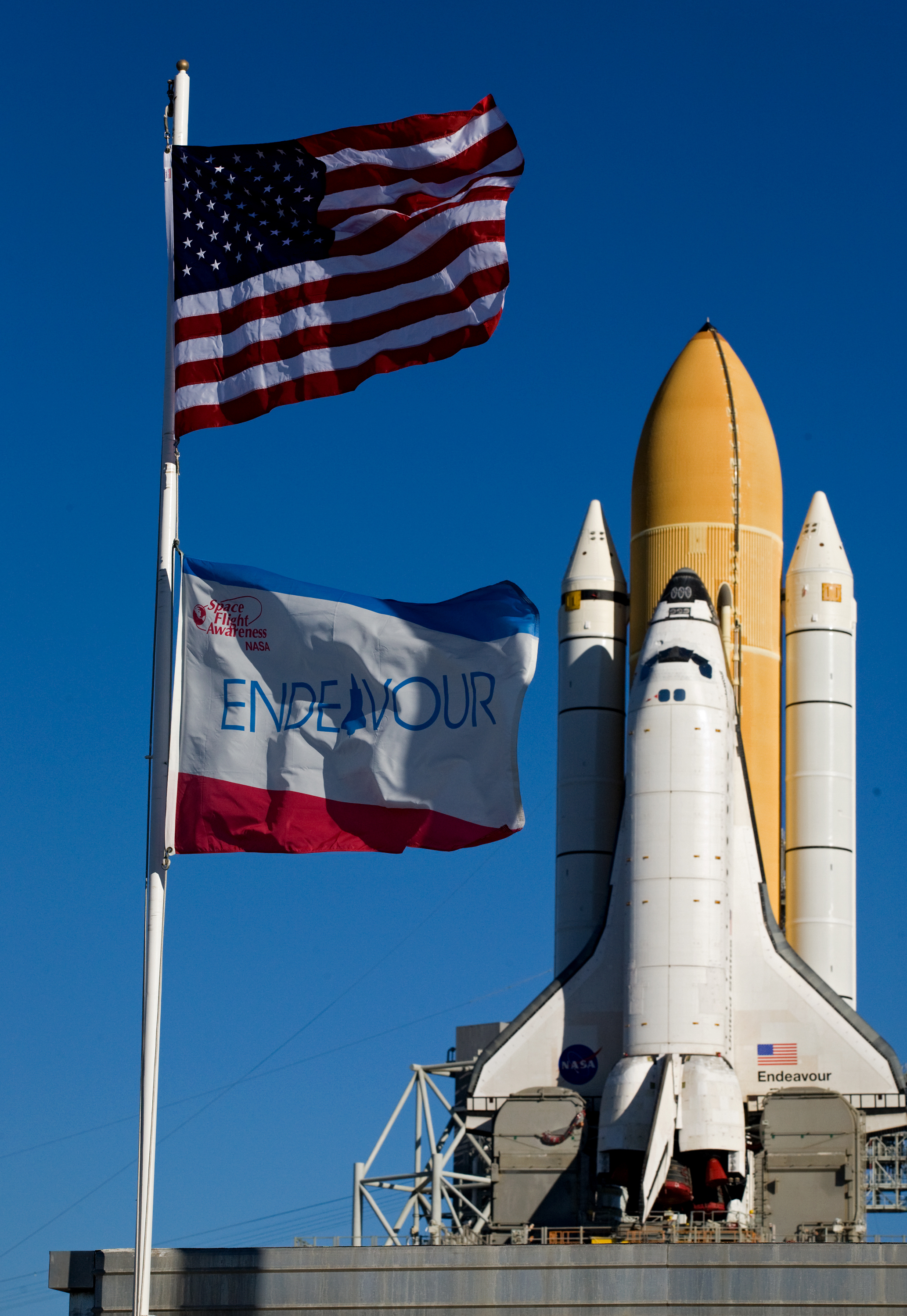 CAPE CANAVERAL, Fla. – At Launch Pad 39A at NASA's Kennedy Space Center in Florida, flags catch the breeze off the Atlantic Ocean as space shuttle Endeavour arrives at the pad. First motion on the 3.4-mile trip from the Vehicle Assembly Building, known as rollout, was at 4:13 a.m. EST Jan. 6. Endeavour was secure or "hard down" on the pad at 10:37 a.m. Rollout is a significant milestone in launch processing activities. The primary payload for the STS-130 mission is the International Space Station's Node 3, Tranquility, a pressurized module that will provide room for many of the station's life support systems. Attached to one end of Tranquility is a cupola, a unique work area with six windows on its sides and one on top. The cupola resembles a circular bay window and will provide a vastly improved view of the station's exterior. The multi-directional view will allow the crew to monitor spacewalks and docking operations, as well as provide a spectacular view of Earth and other celestial objects. The module was built in Turin, Italy, by Thales Alenia Space for the European Space Agency. Endeavour's STS-130 launch is targeted for 4:39 a.m. EST Feb. 7. For information on the STS-130 mission and crew, visit